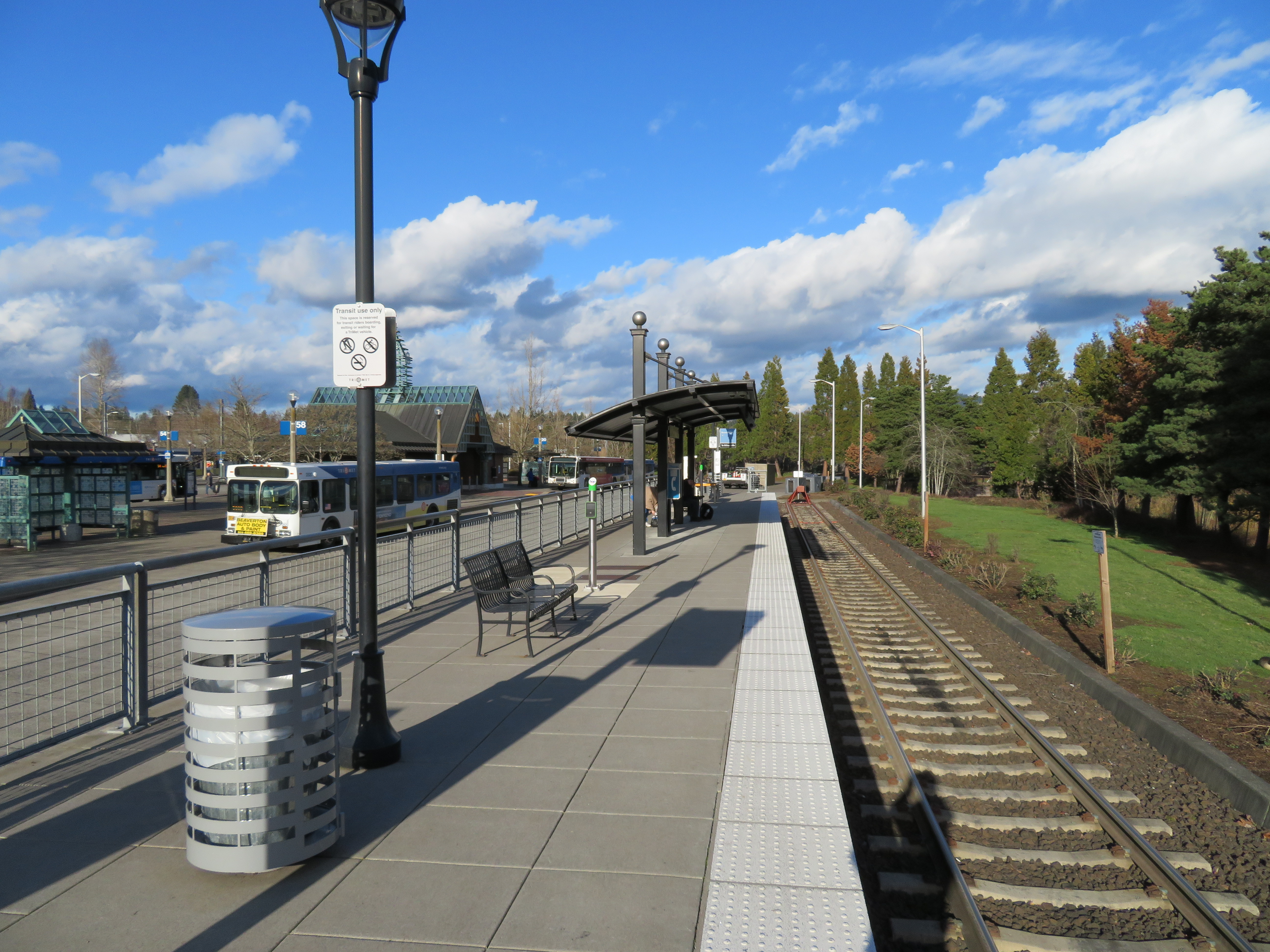 WES platform at Beaverton Transit Center in February 2018